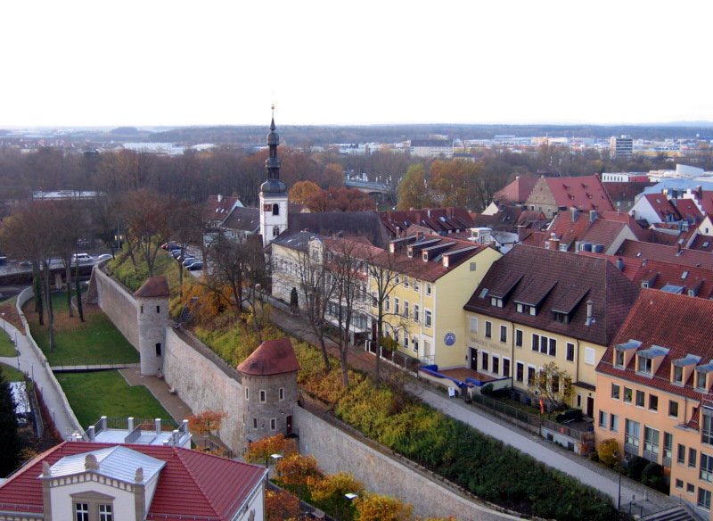 Schweinfurt, city walls near St. Salvador Church